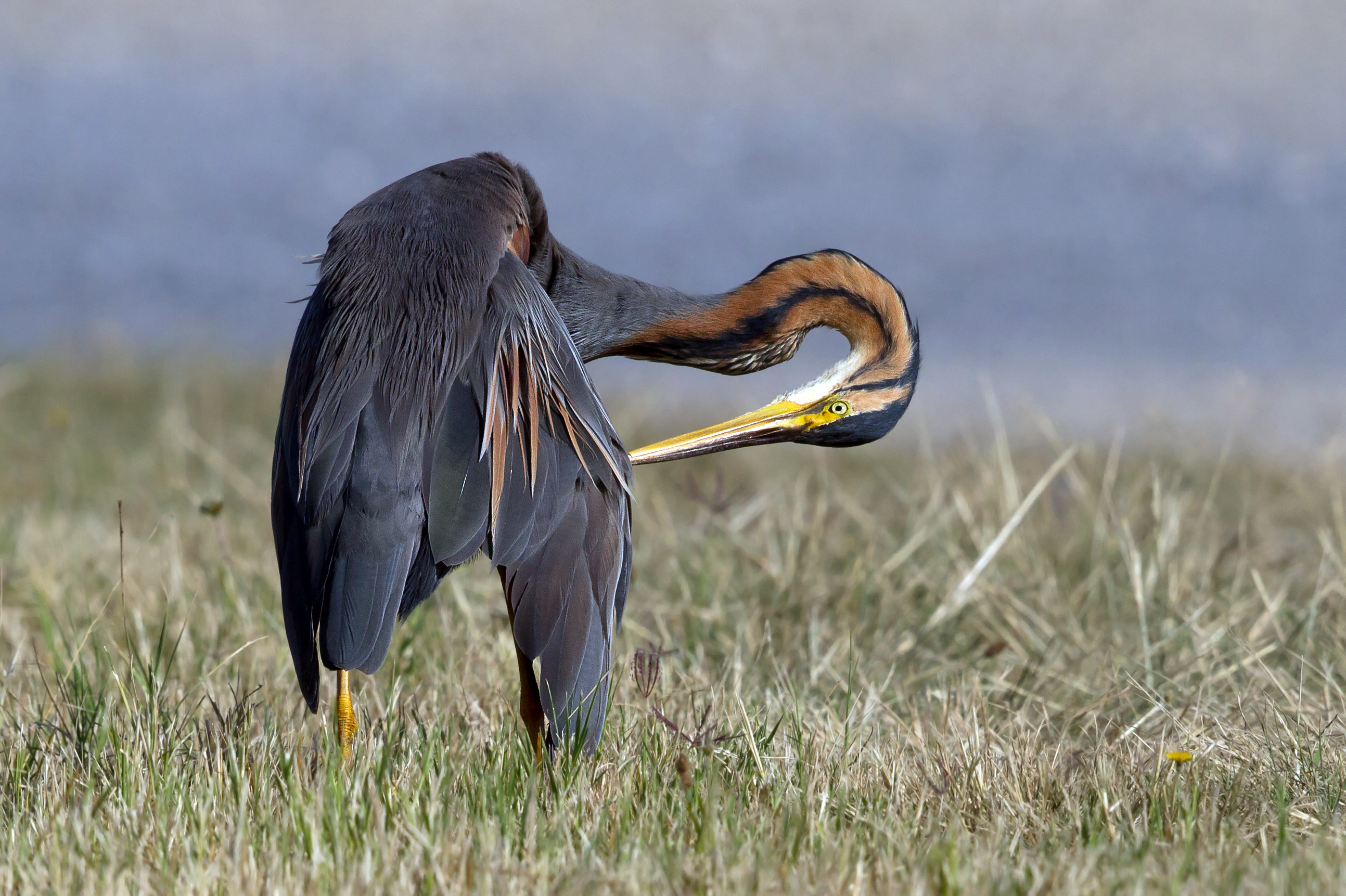 Purple heron.